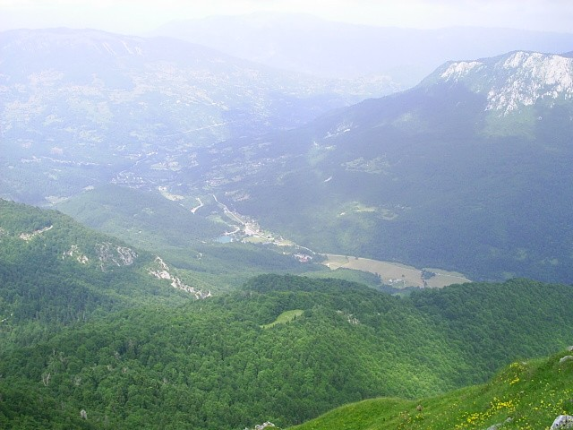 Zelengora mountains in Bosnia-Herzegovina